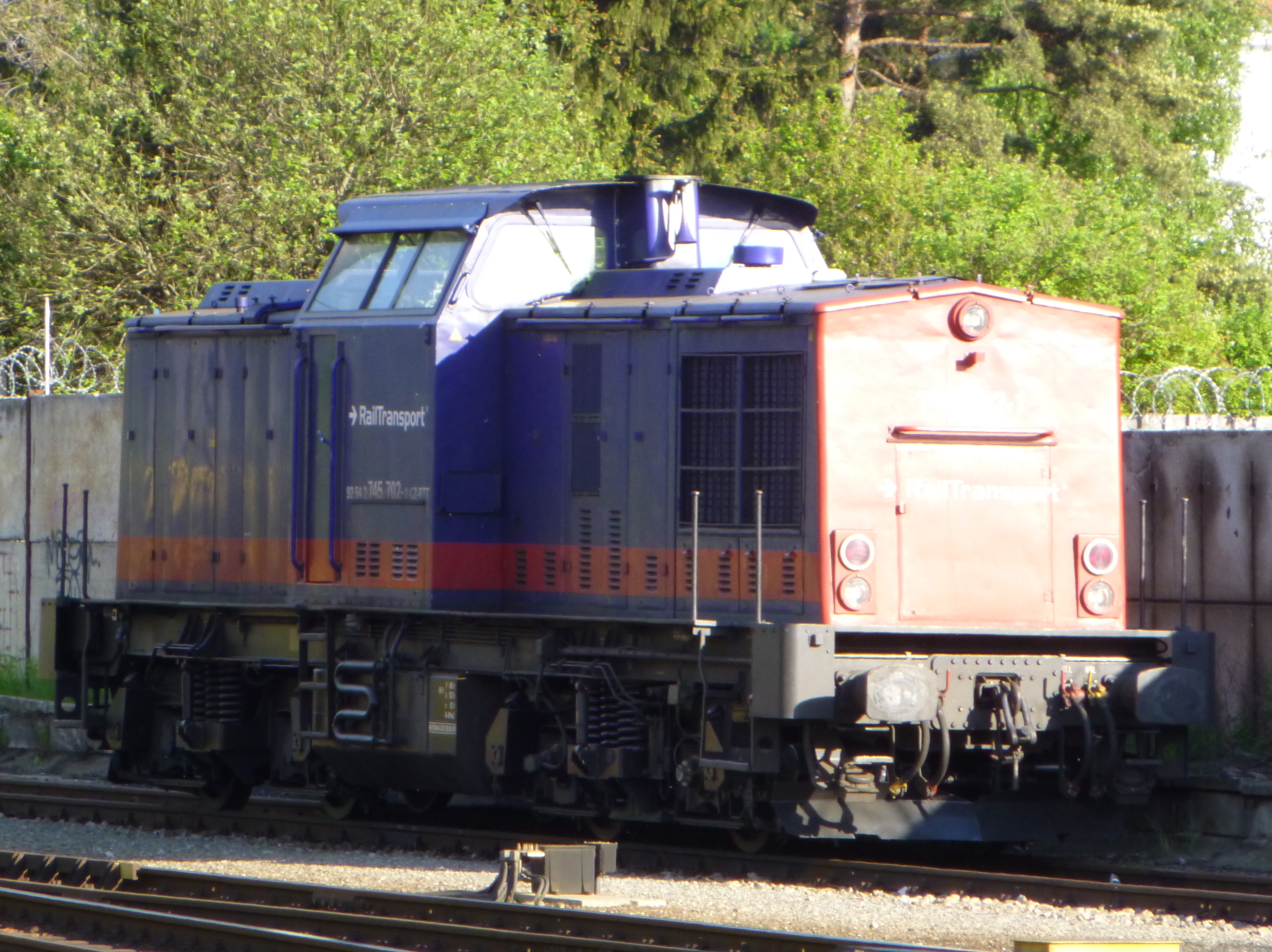 LEW 1974/14362 of METRAINS Rail (formerly Railtrans/RailTransport), registered as 745 702-1, in Prague Uhříněves